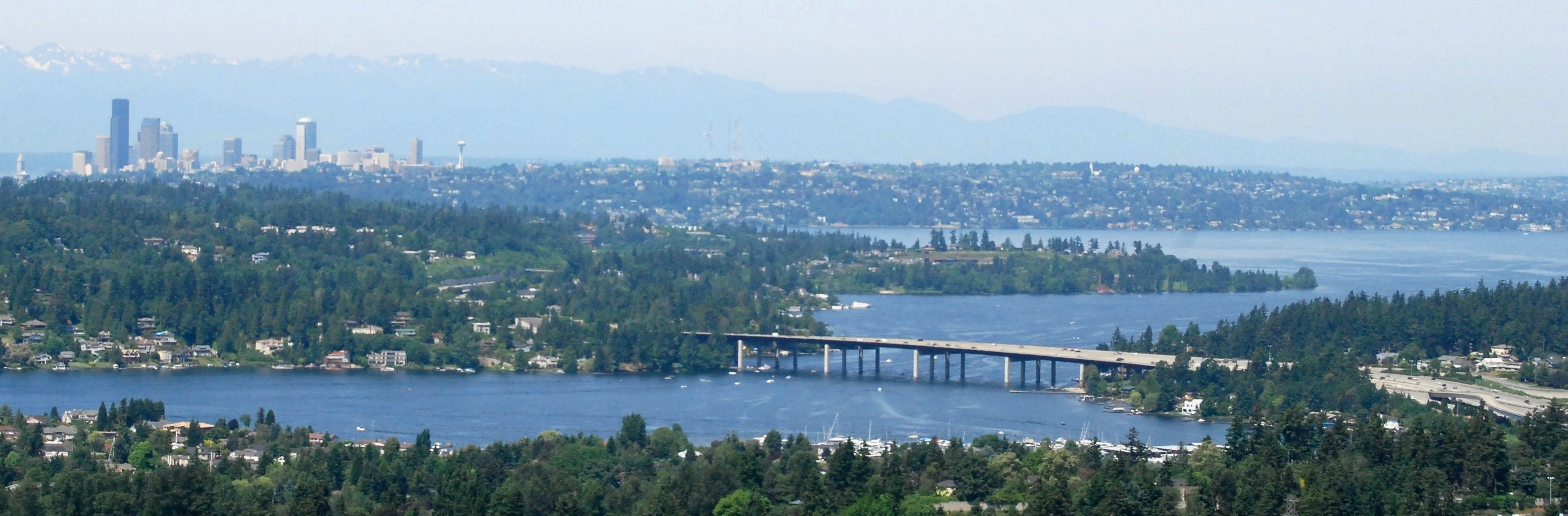 This is a picture of East Channel Bridge taken from Somerset looking west. Luther Burbank Park, on Mercer Island's north end, is seen just above the bridge. The background shows downtown Seattle bracketed by the Smith Tower, with its white pyramid top, at the left, and the Seattle Space Needle at the right. The Olympic mountain range is seen in the far distance, on this unusually clear day. The University of Washington Husky stadium is just out of the picture, past the right border and on the far side of Lake Washington.